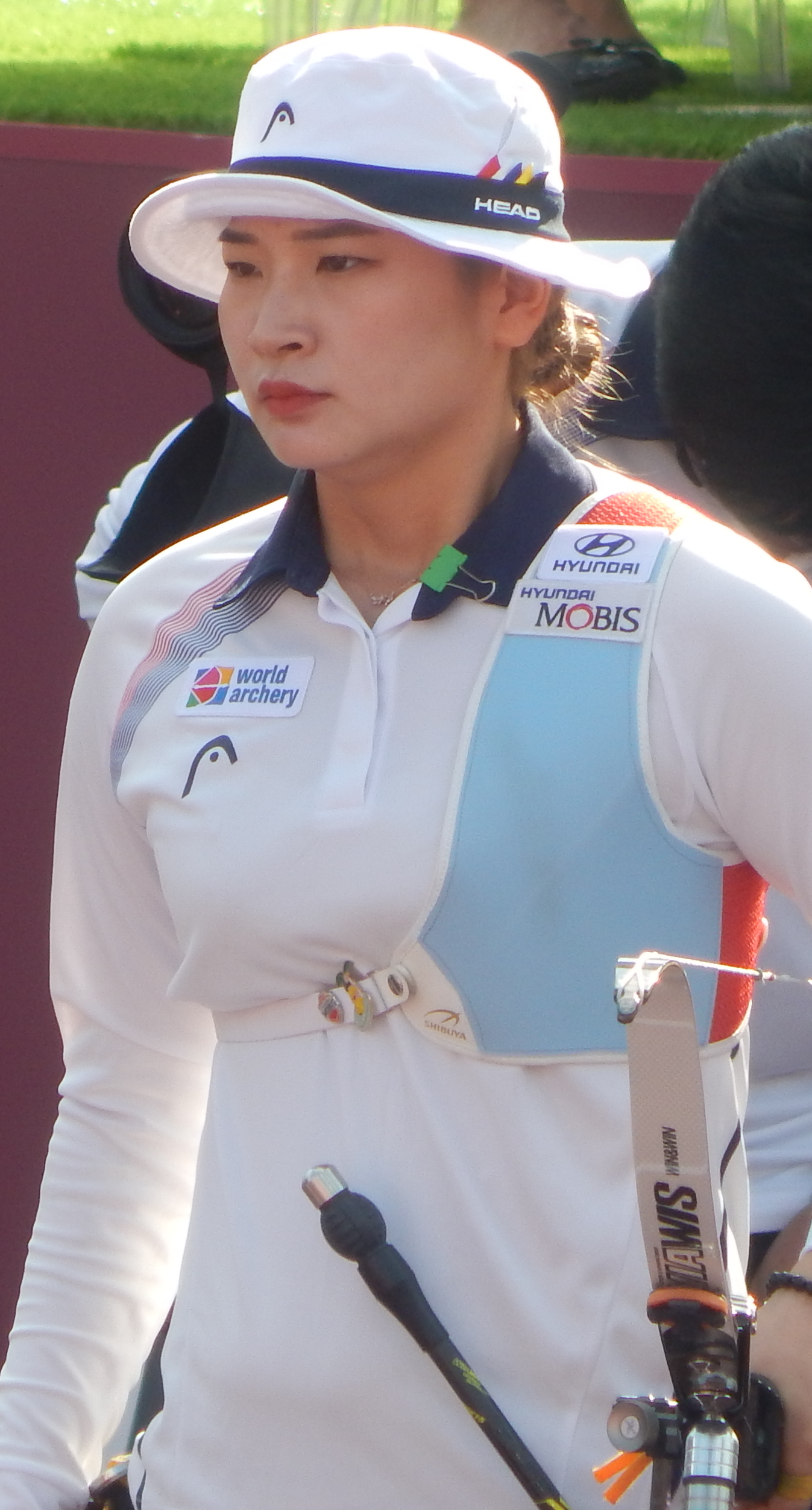 2019 Archery World Cup Final in Moscow. Women's Recurve.